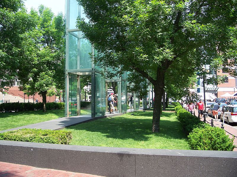 Walkway of the New England Holocaust Memorial